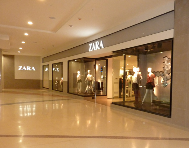 Zara on a shopping mall